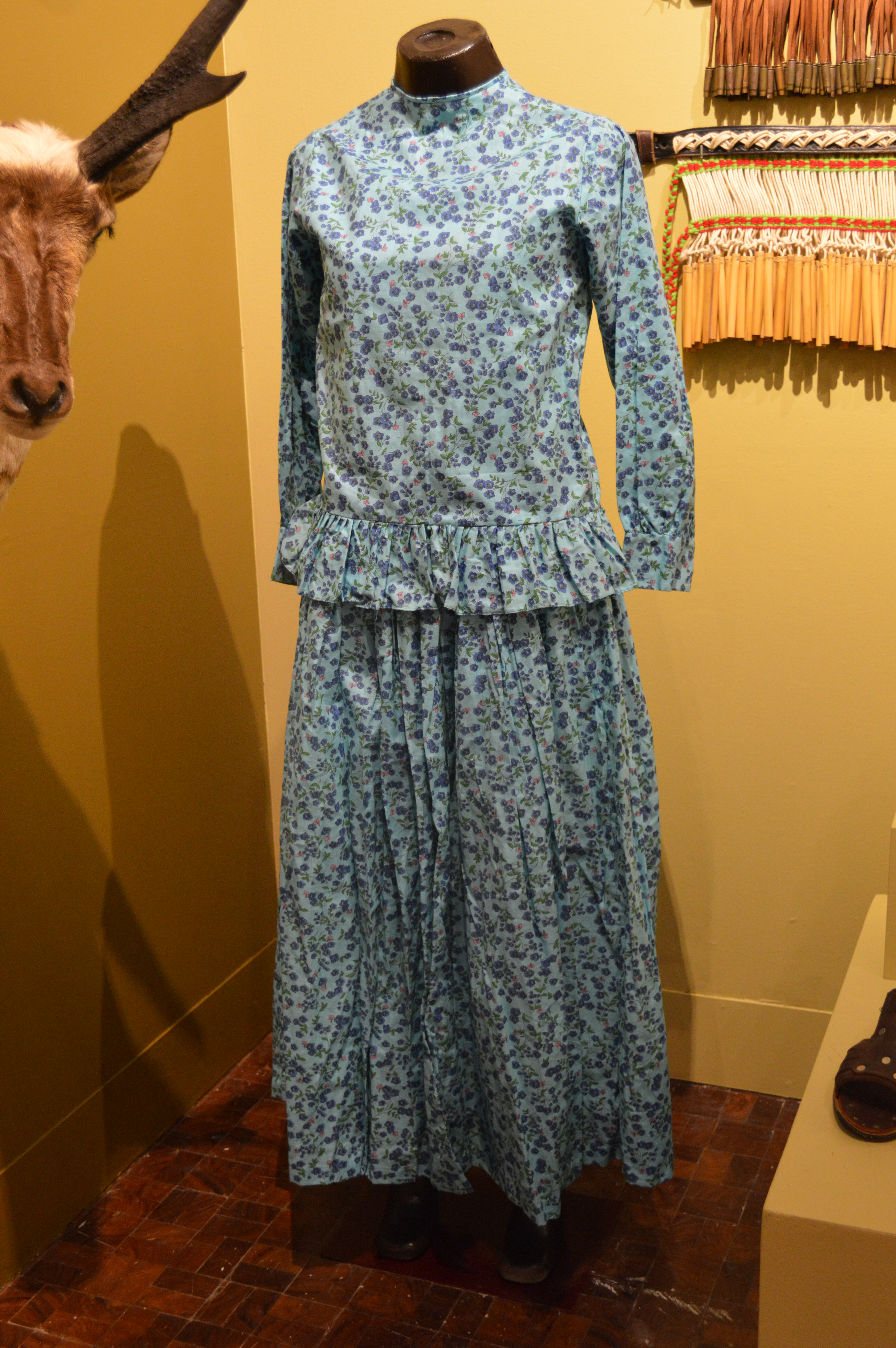 Mayo woman's dress from Sinaloa at the El Norte, su materia, su artesania at the Museo de Arte Popular in Mexico City